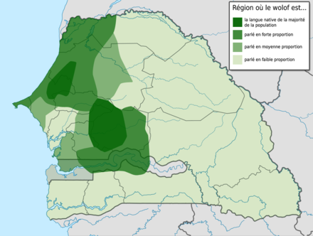 موقعیت جغرافیایی ولوف زبانان در سنگال توسط نقشه